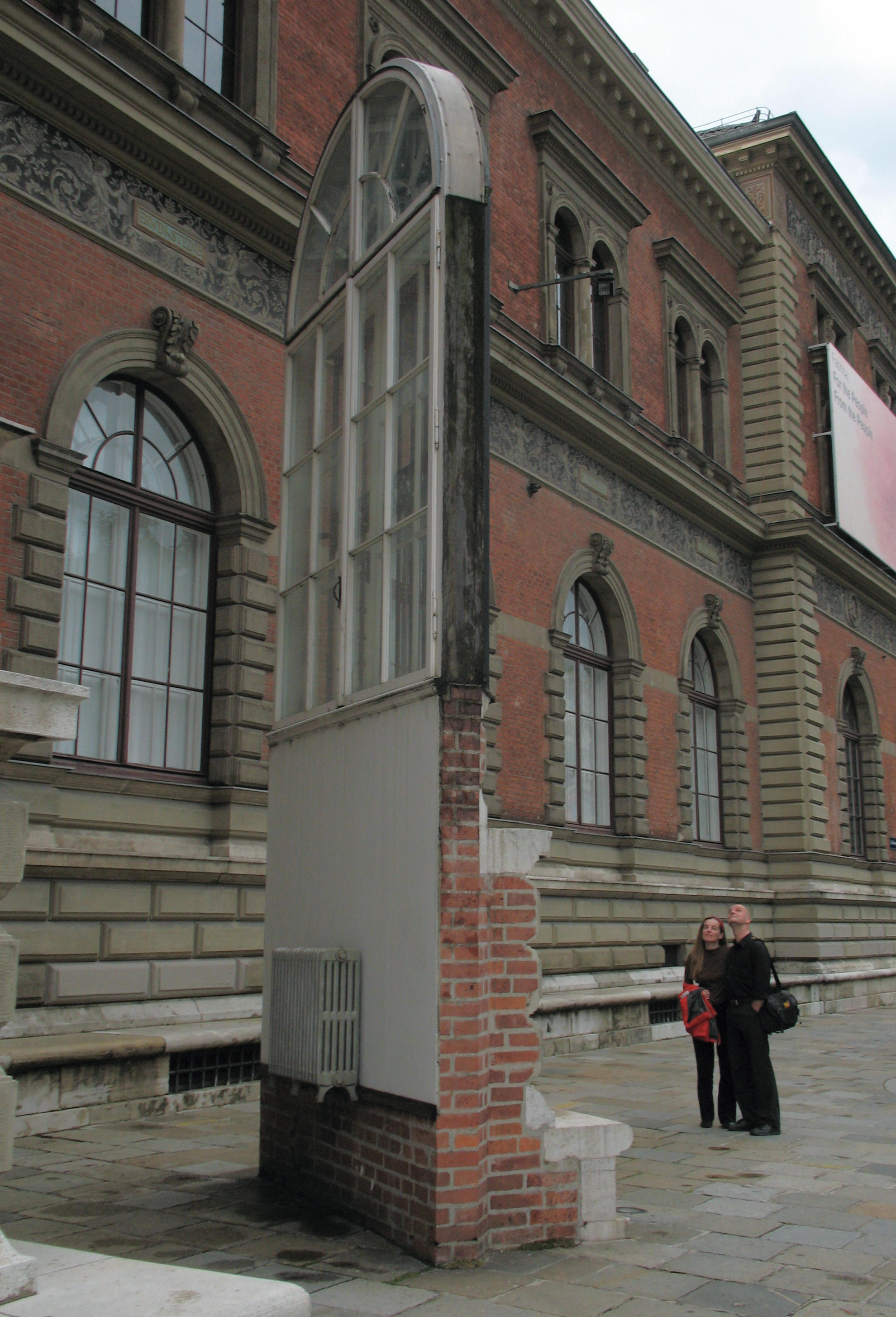 Museum of Applied Arts in Vienna, Austria